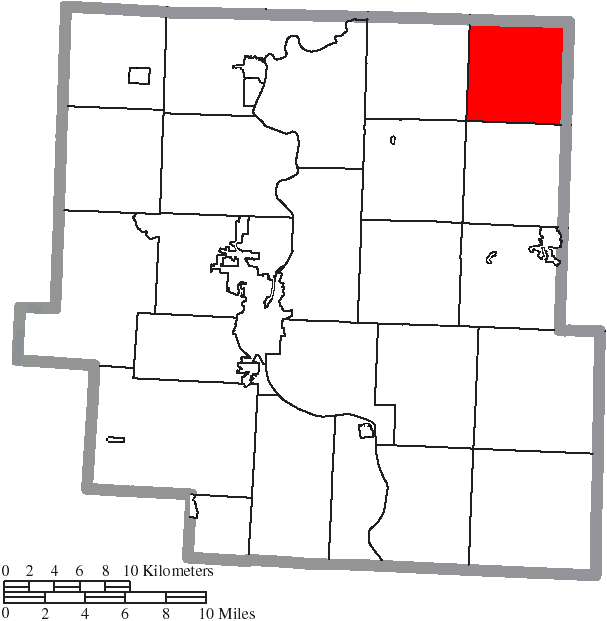 Map of the municipal and township boundaries of Muskingum County, Ohio, United States, as of the 2000 census, with the location of Monroe Township highlighted. Township borders are shown only in unincorporated areas in order to differentiate incorporated and unincorporated areas more clearly.